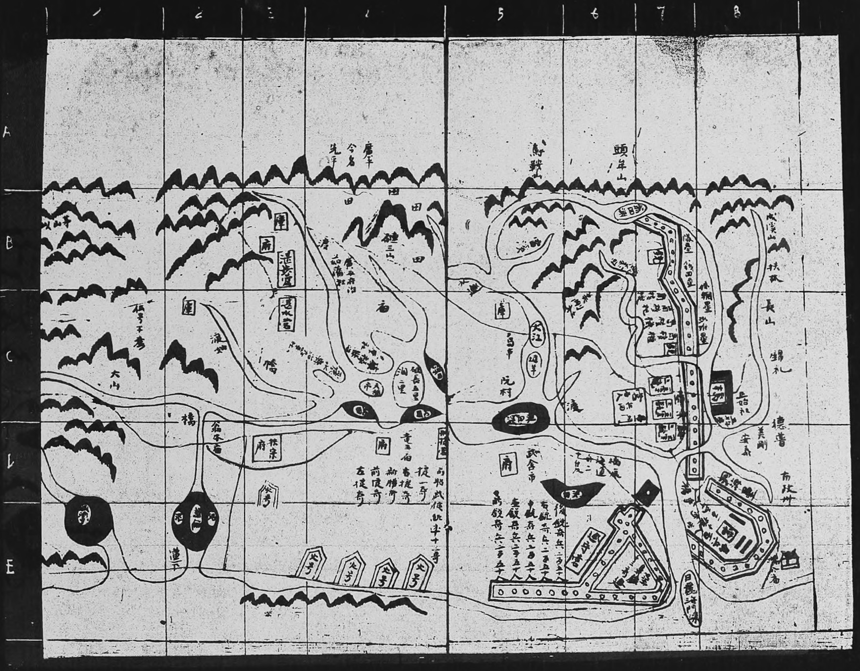 Map of Cochinchine drawn by Bùi Thế Đạt, governor of Nghệ An